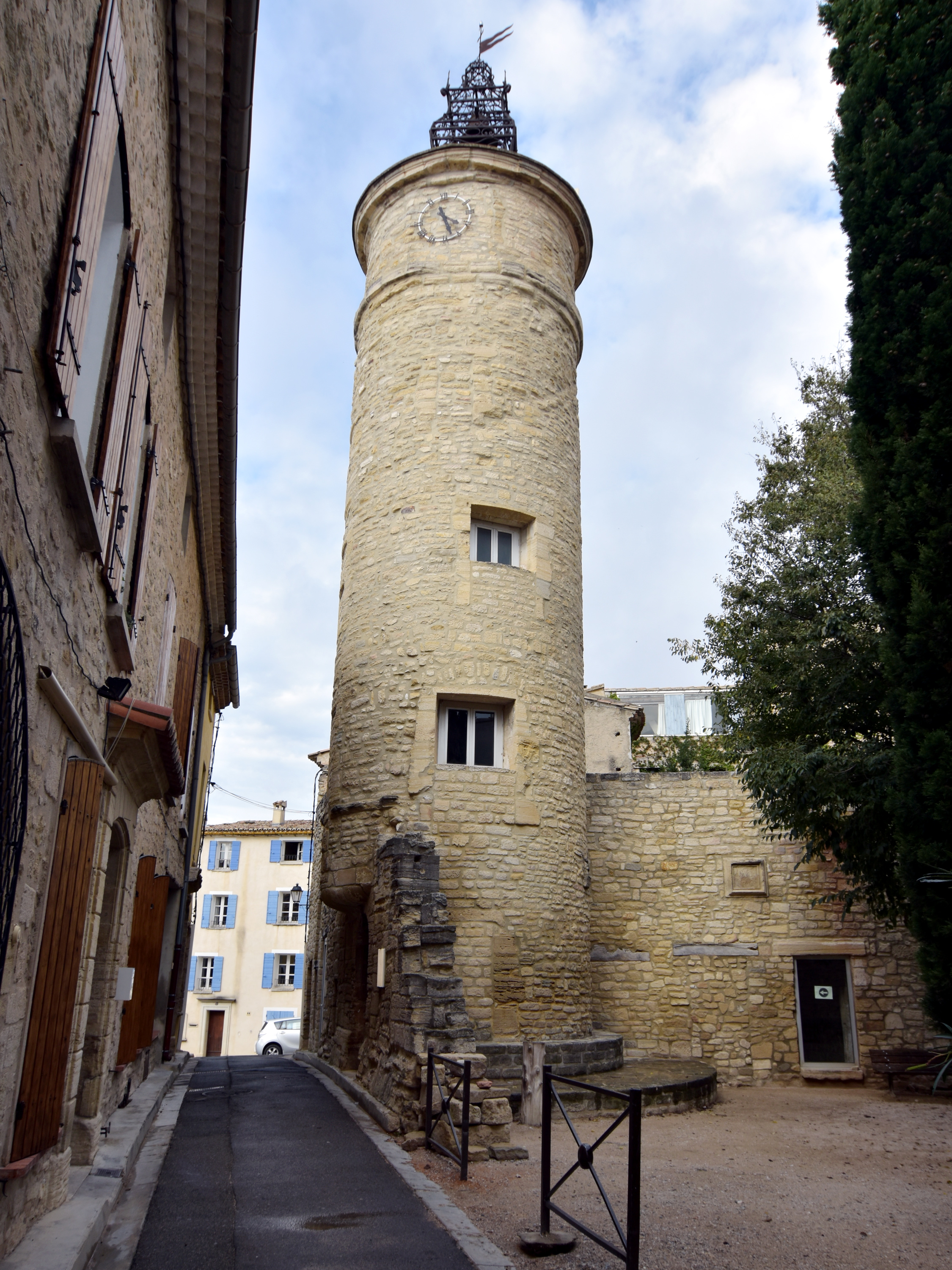 Caromb, Beffroi (Belfry)